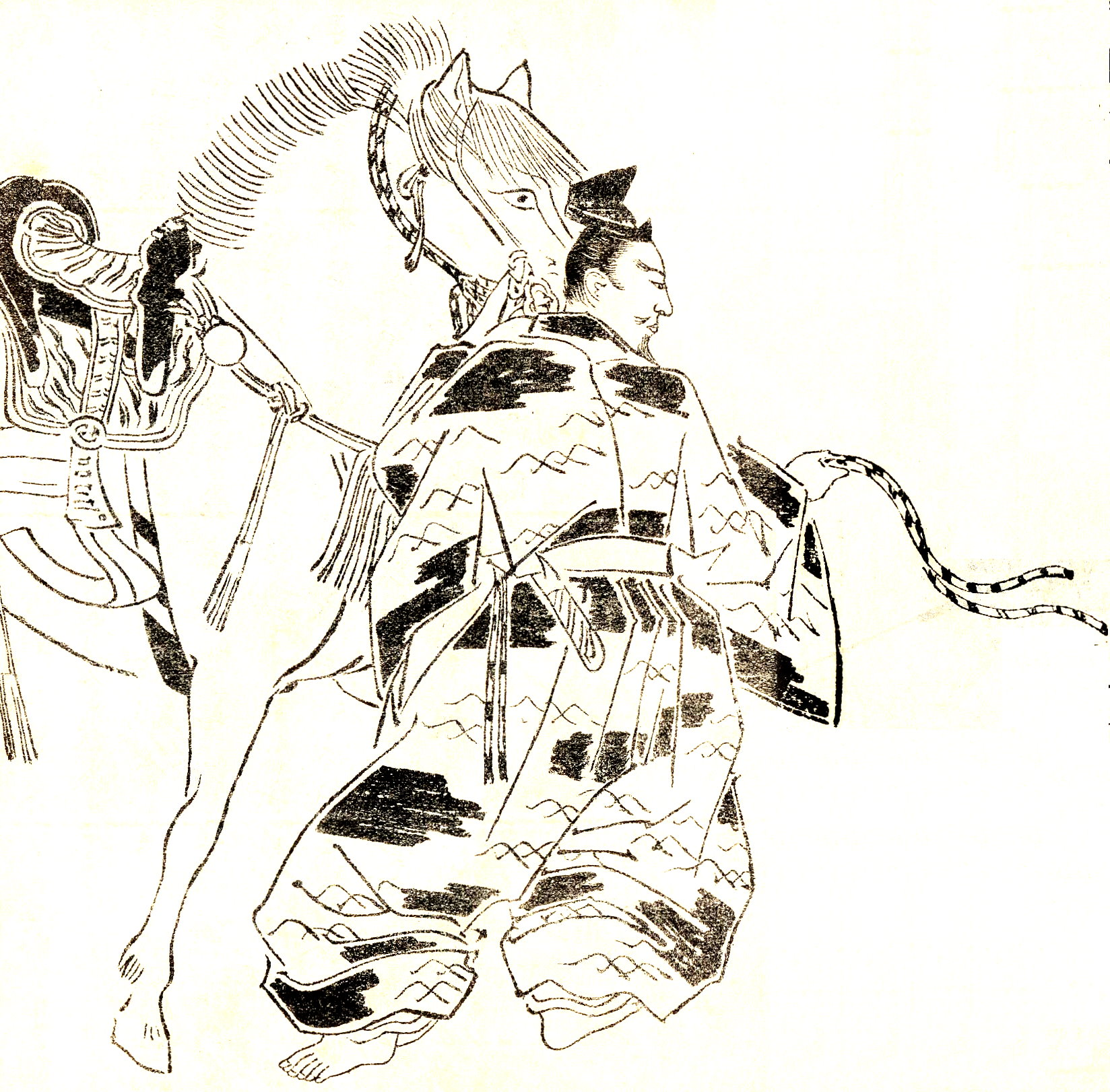 Yuuki Tomomitu (結城朝光)was a Samurai of Japan in Kamakura era.This picture was drawn by Kikuchi Yosai（菊池容斎） who was a painter in Japan.